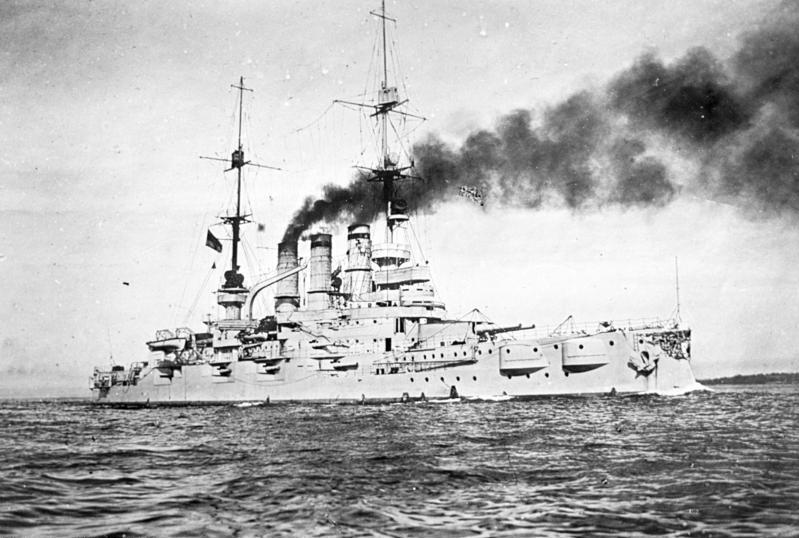 German Deutschland class battleship SMS Pommern, view from starboard